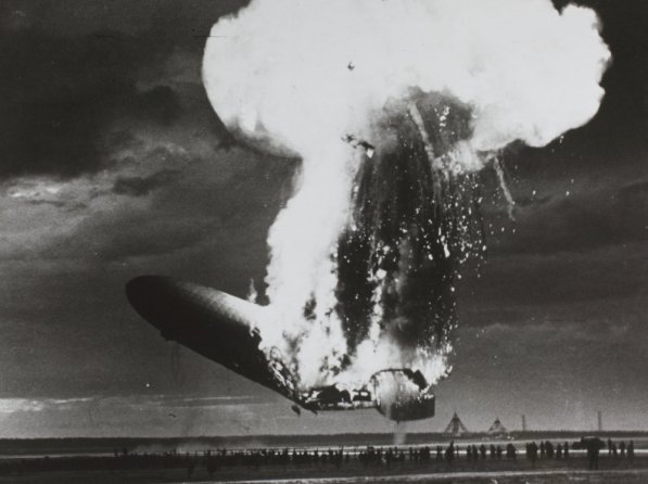 PictionID: 38069058 - Catalog:Array - Title:Array - Filename:AL-84 Album Image _00004.TIF - Images from an Album donated to the Museum by aviation artist John Vanowsky-------------- -------------- --- SOURCE INSTITUTION: San Diego Air and Space Museum Archive